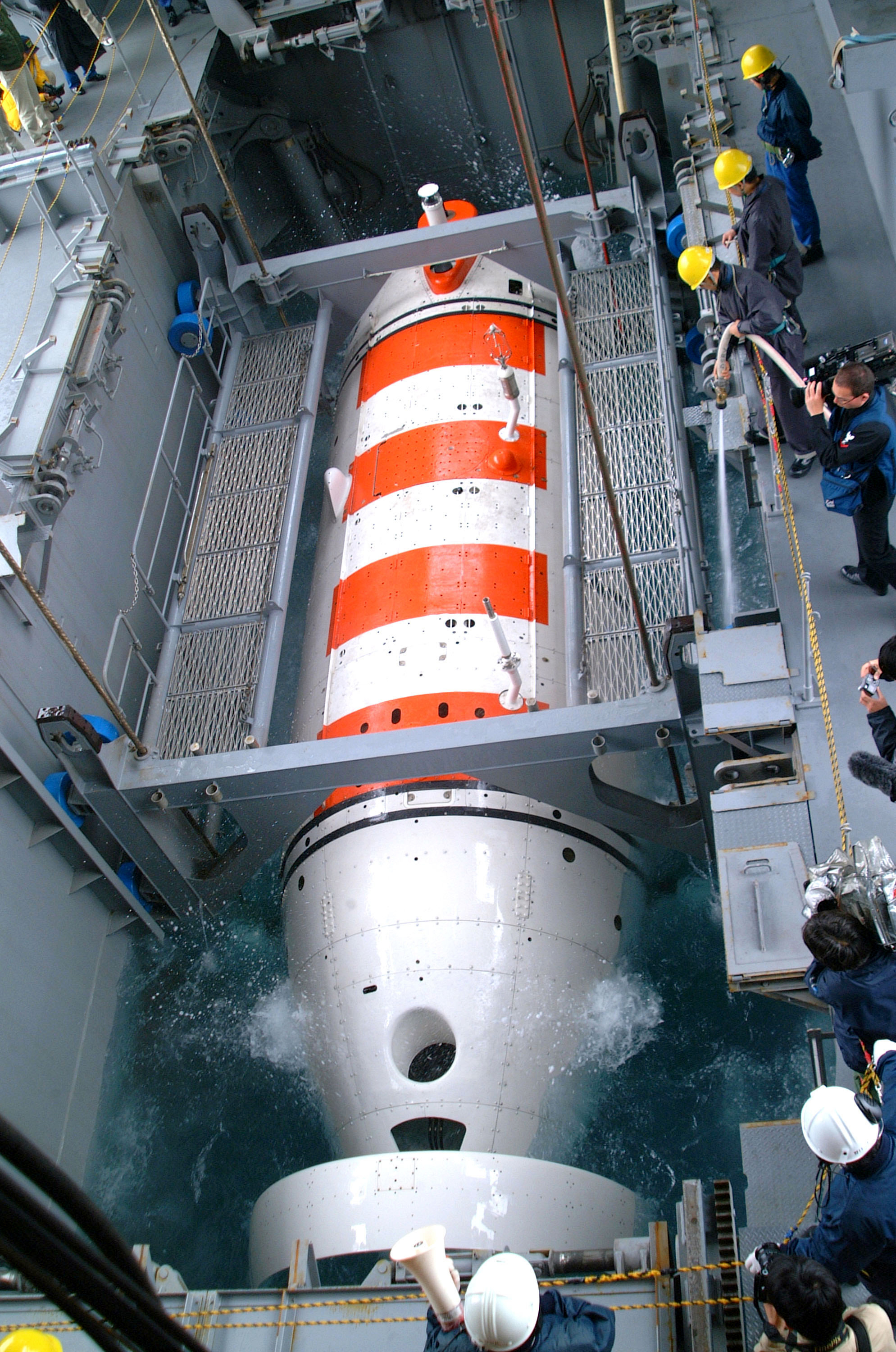 At sea aboard JDS Chihaya (ASR-403) Apr. 28, 2002 -- The 40 ton Japanese Maritime Self Defense Force (JMSDF) Deep Submergence Rescue Vehicle (DSRV) Angler Fish 2, is lowered through the middle of the JMSDF submarine rescue ship, JDS Chihaya. The DSRV will deploy 50 meters below and mate with a simulated disabled Republic of Korea Navy submarine on the ocean floor, during events supporting exercise Pacific Reach 2002. Pacific Reach is an exercise hosted by the JMSDF designed to improve submarine rescue capabilities. Members of the United States, Japan, Australian, Republic of Korea, and Republic of Singapore navies are participating in the exercise with observers from Indonesia, the United Kingdom, Canada, Chile, France, China, and India. U.S. Navy photo by Lt. j.g. John Perkins. (RELEASED)